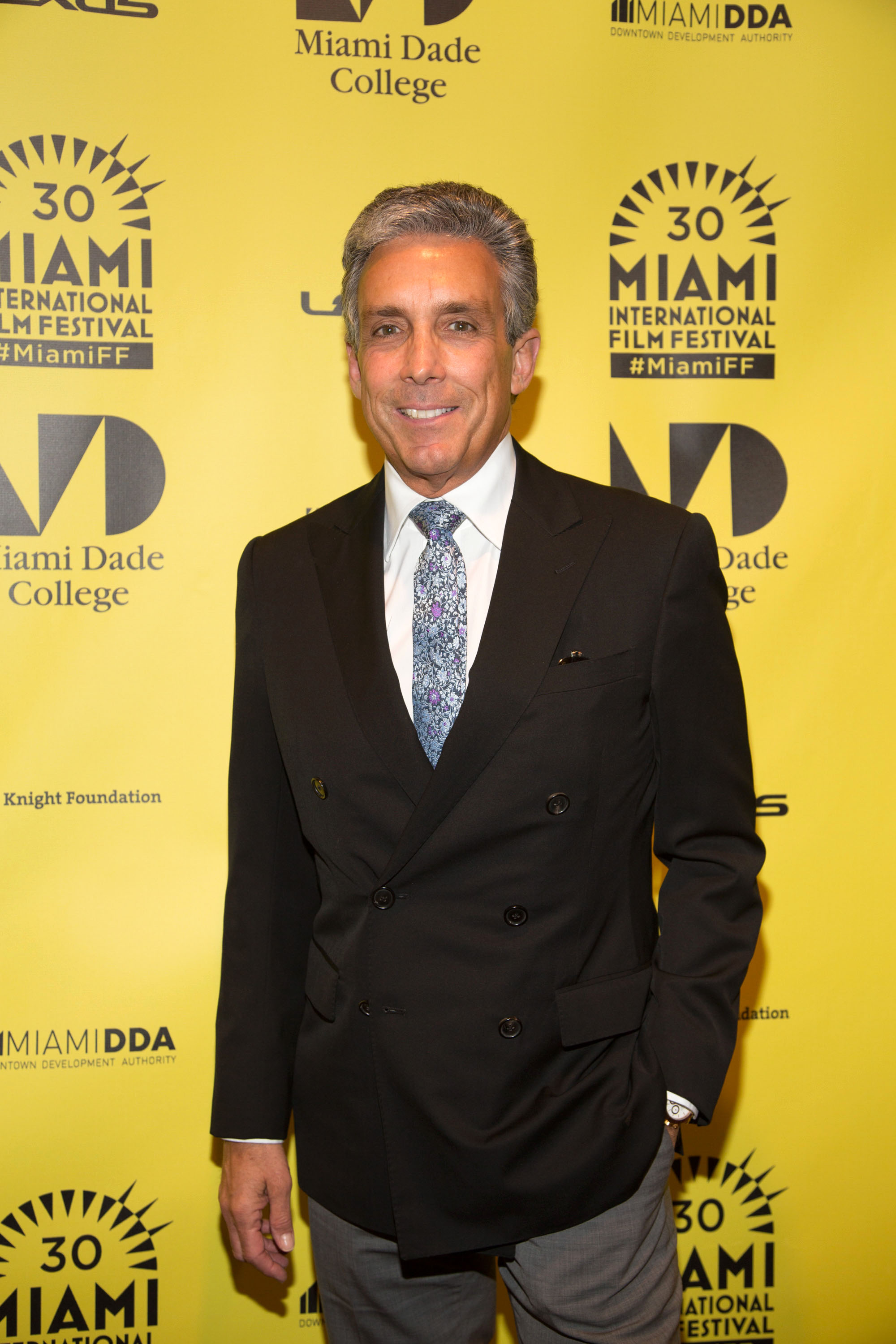 Charles S. Cohen at the MIFF Career Achievement Tribute: Fernando Trueba, followed by the U.S. premiere of THE ARTIST AND THE MODEL at Olympia Theater at Gusman Center for the Performing Arts on March 8, 2013